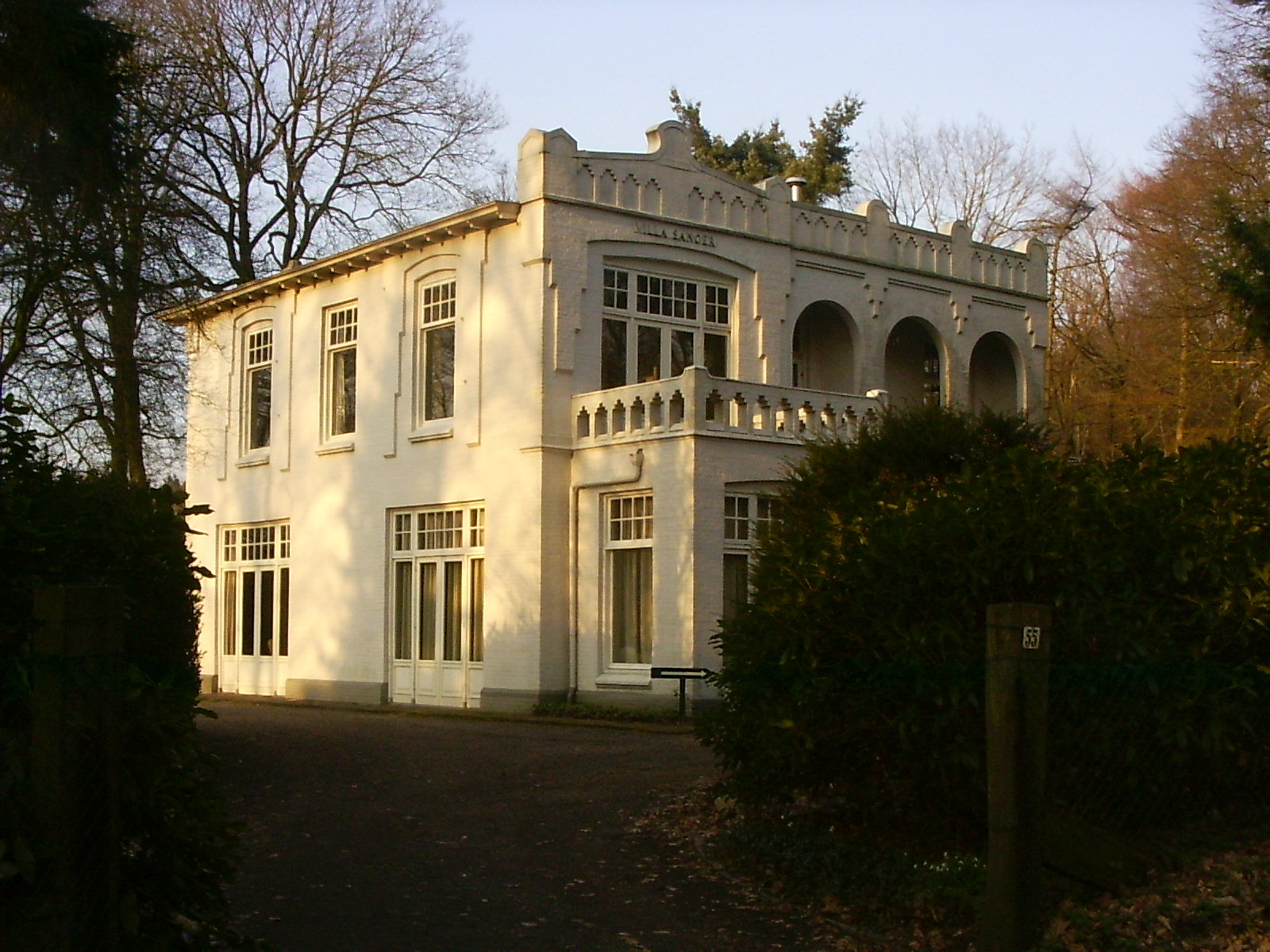 Wageningen, Geertjesweg 55, Sanoer Mansion